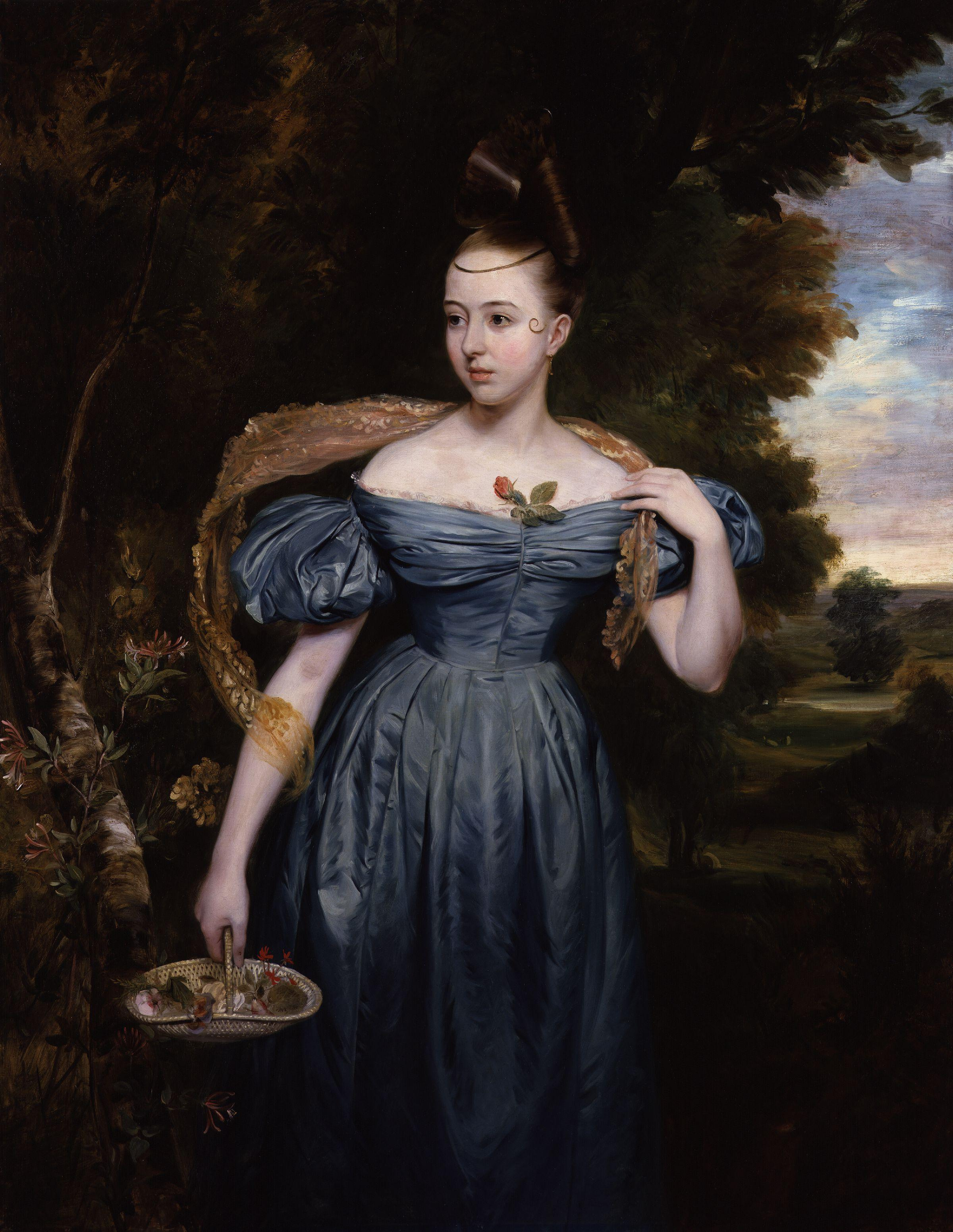 Clara Novello, by Edward Petre Novello (died 1836). All images in this batch have been confirmed as author died before 1939 according to the official death date listed by the NPG.